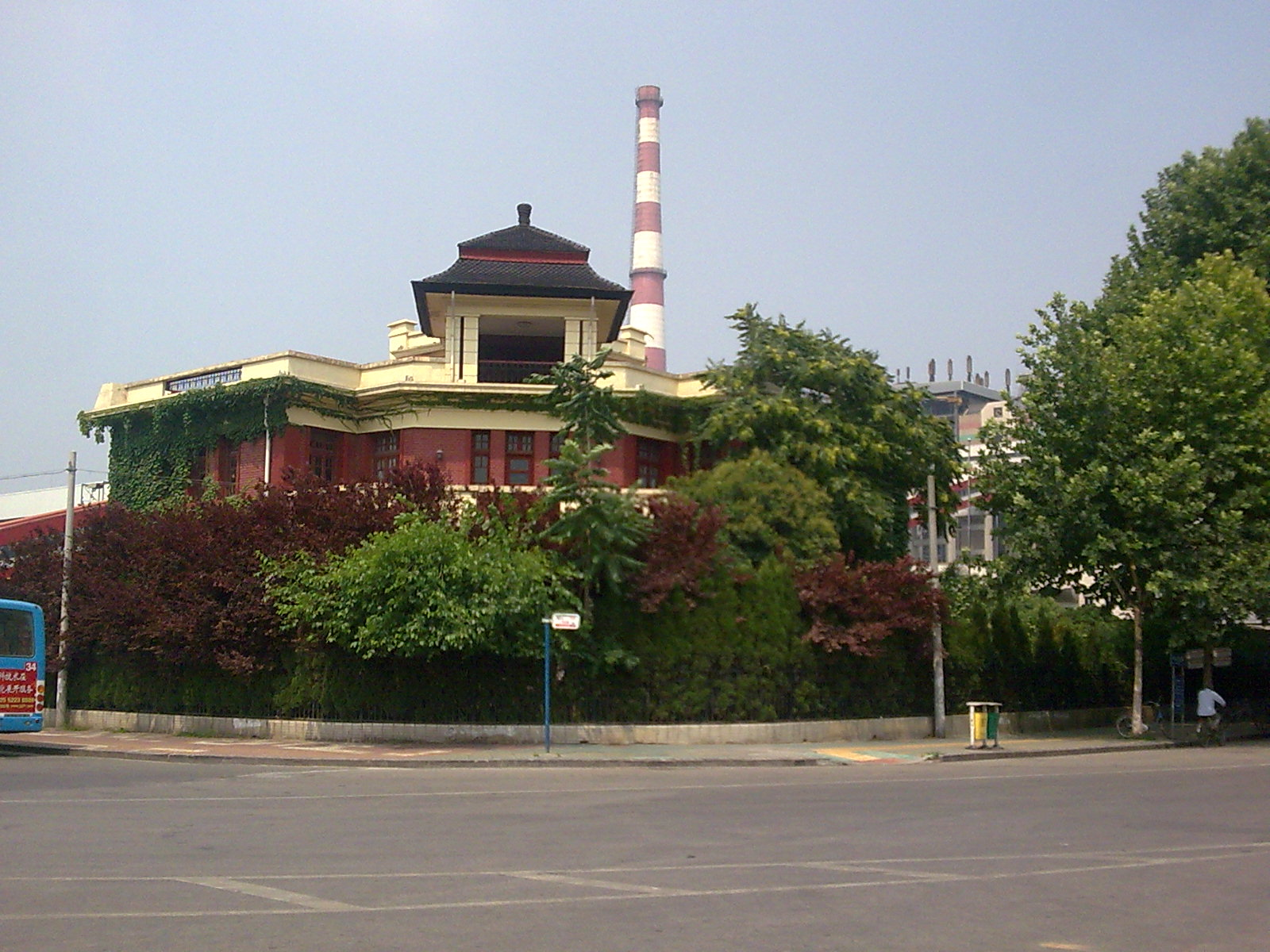 Xiaguan Power Station in Nanjing, China.